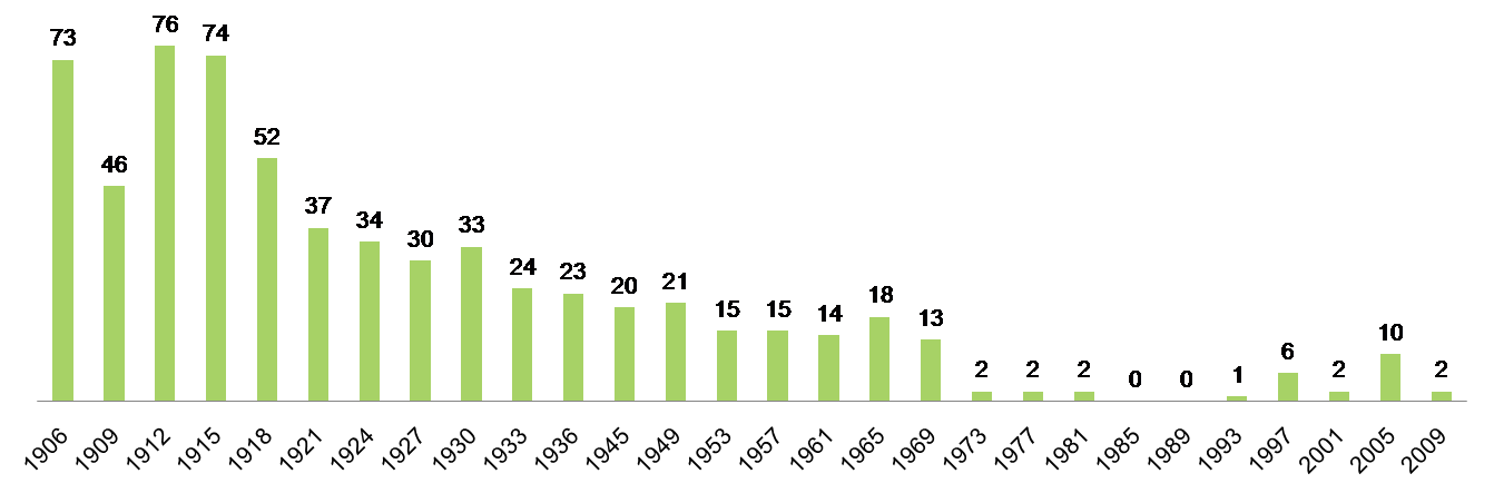 Seats of the Norwegian Liberal Party since 1906.